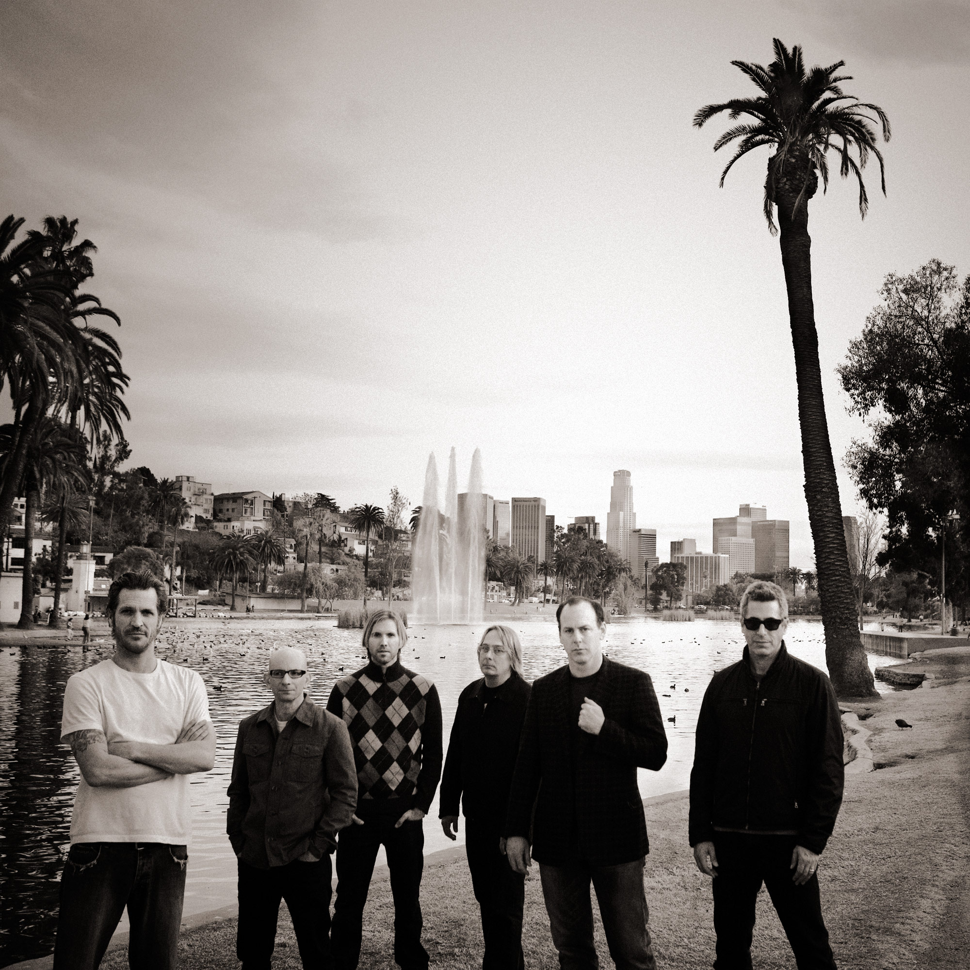 Photograph of Bad Religion